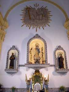 jfoidbjpoidb